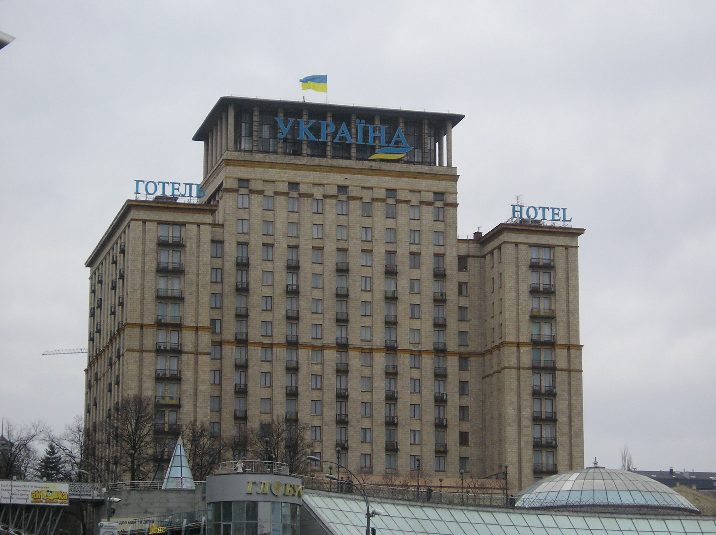 Ukraine.Kyiv.Chrestjatyk.Hotel "Ukraine".